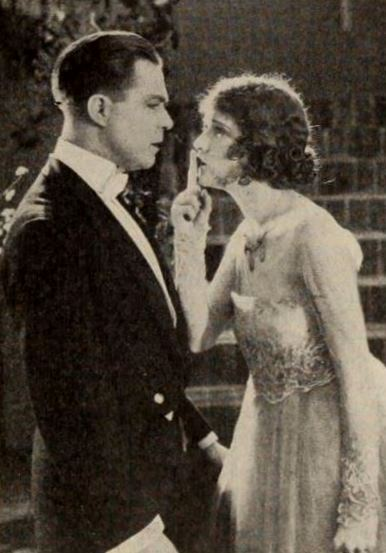 Still from the American film The Veiled Adventure (1919) with Harrison Ford and Constance Talmadge, on page 43 of the April 12, 1919 Exhibitors Herald.